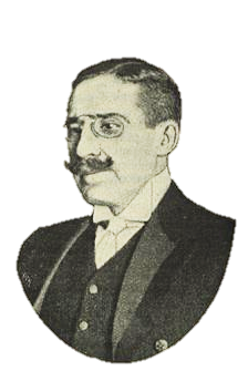 Manuel Fratel (1869–1938), cabinet minister in the last government of the Portuguese Constitutional Monarchy.